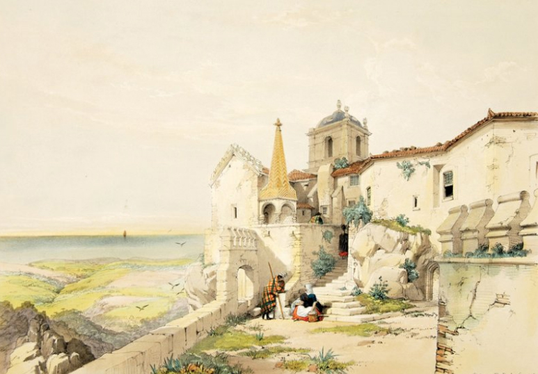 The Convent of Pena, in a 1839 painting.